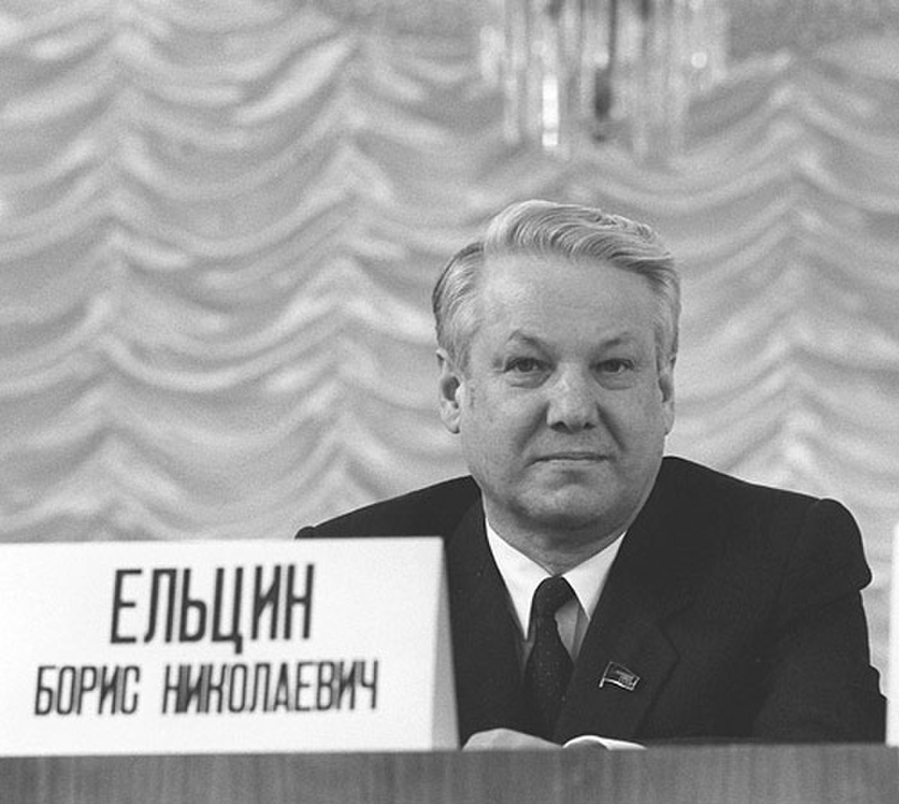 MOSCOW. On 21 February 1989 Moscow city and national-territorial electoral district No. 1 of the Russian Soviet Federative Socialist Republic (RSFSR) held the district\'s pre-electoral assembly in the Hall of Columns in the House of the Unions. At this assembly 10 candidates from Moscow presented and discussed their electoral platforms. The assembly delegates elected first deputy Director of Gosstroi and Minister of the Soviet Union, Boris Yeltsin, as candidate for the Congress of People's Deputies.